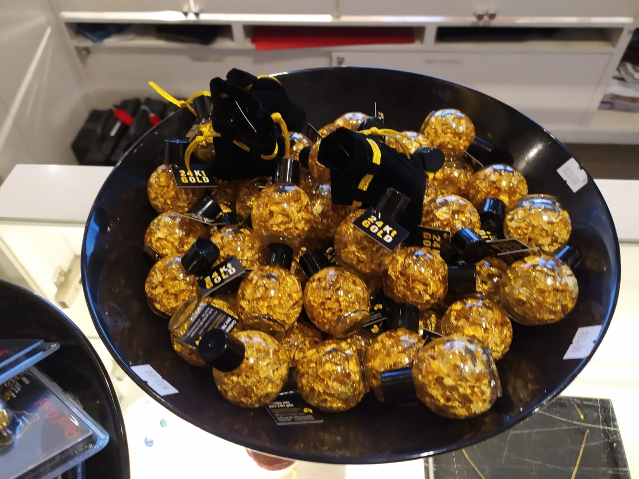 24 k gold replica on display at Museums Victoria